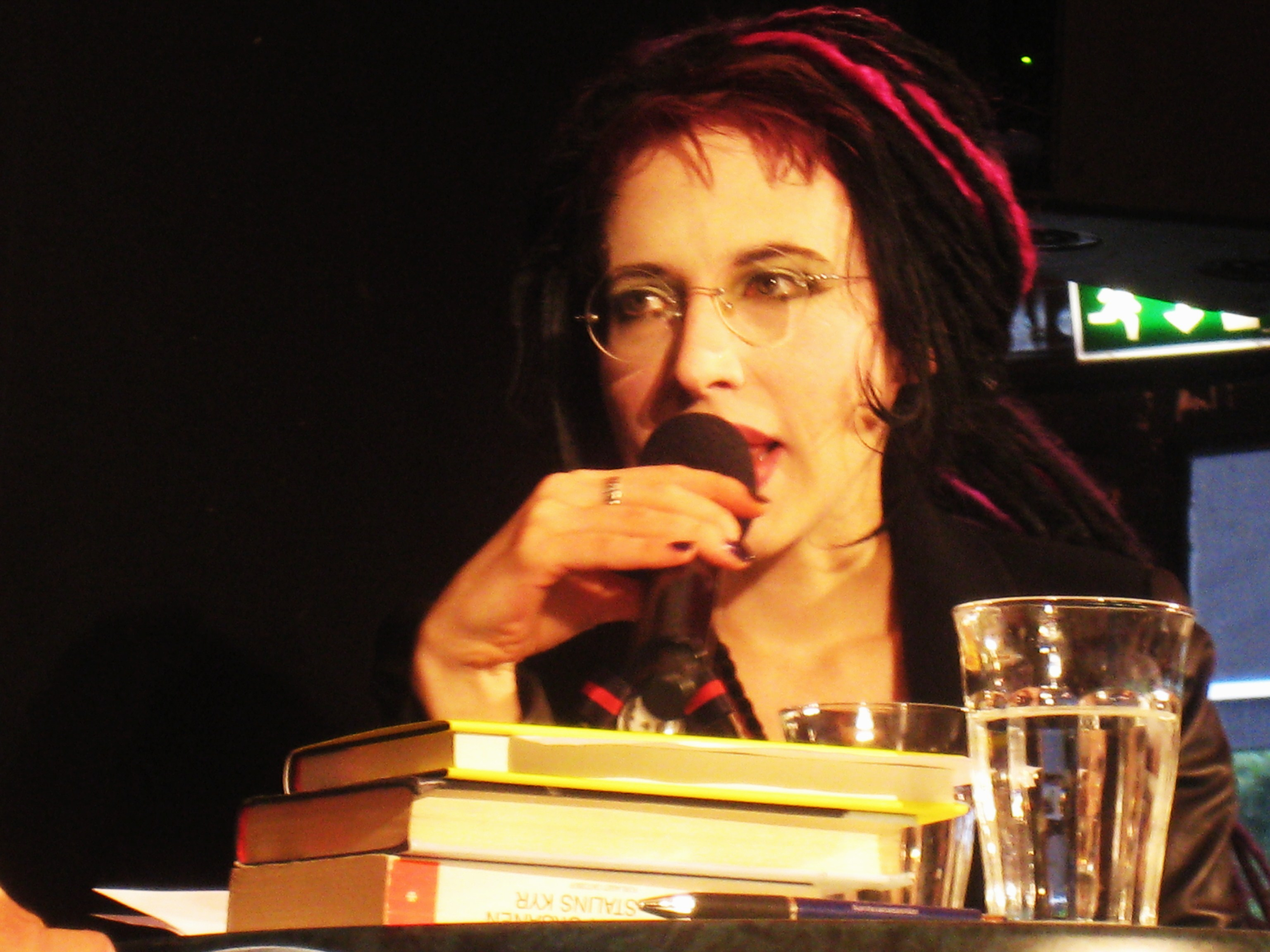 Finnish writer Sofi Oksanen at the literary festival "Oslo bokfestival 2011"